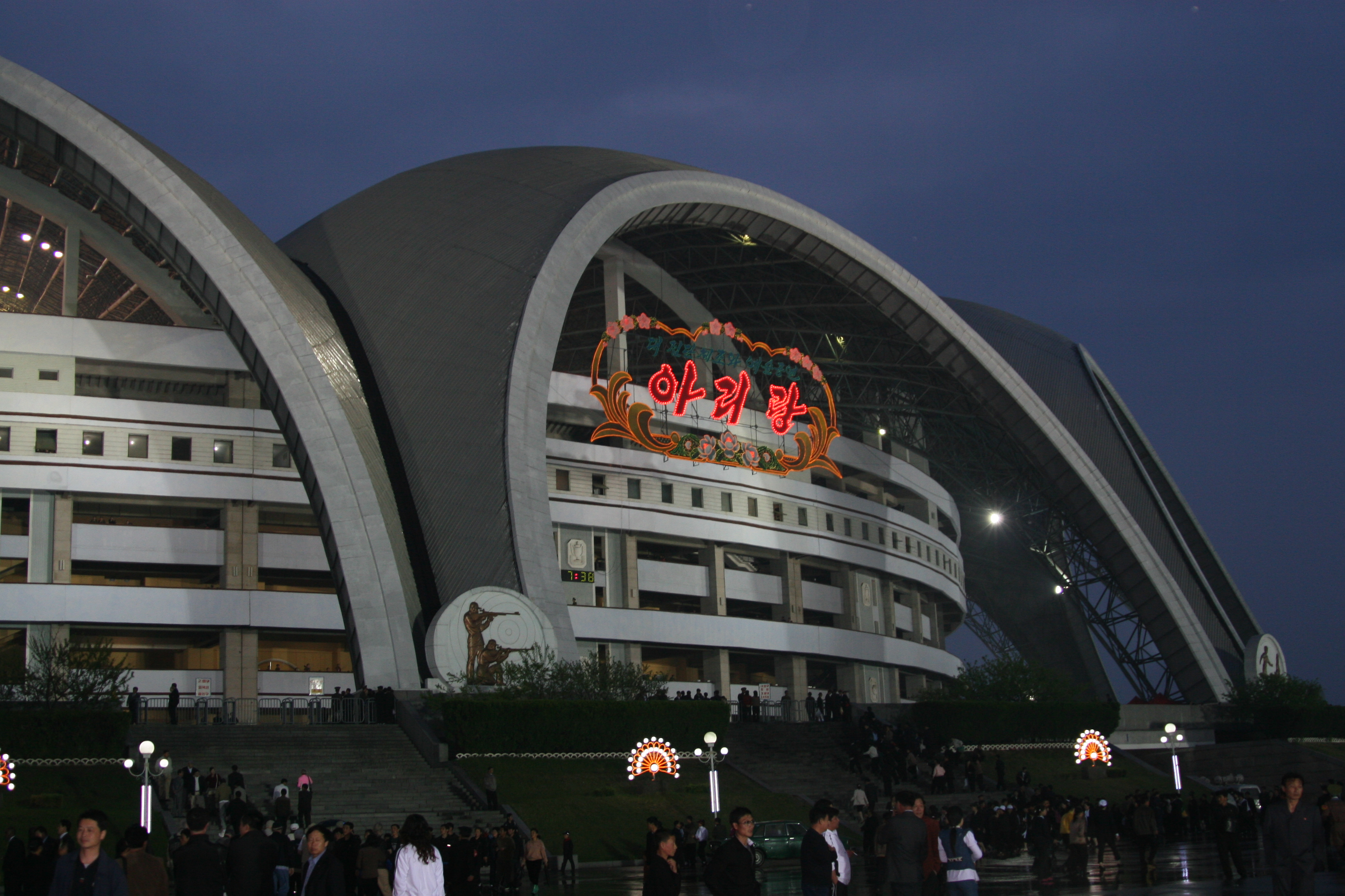 The May day stadium in Pyongyang, 'all lit up' and ready to host the Mass Games